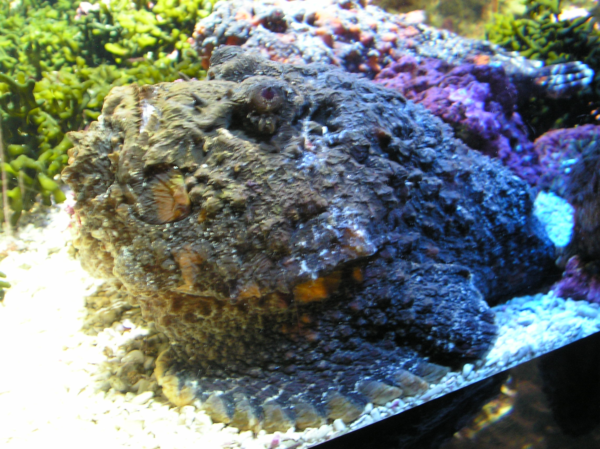 Picture of a stone fish, taken at the Monaco Aquarium on March 15, 2006.